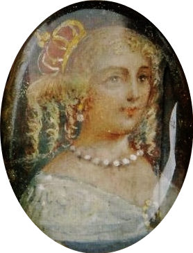 Portrait of Maria Francisca of Savoy, Queen of Portugal